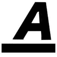 This is the logo used by the sailing craft known as an A-Scow